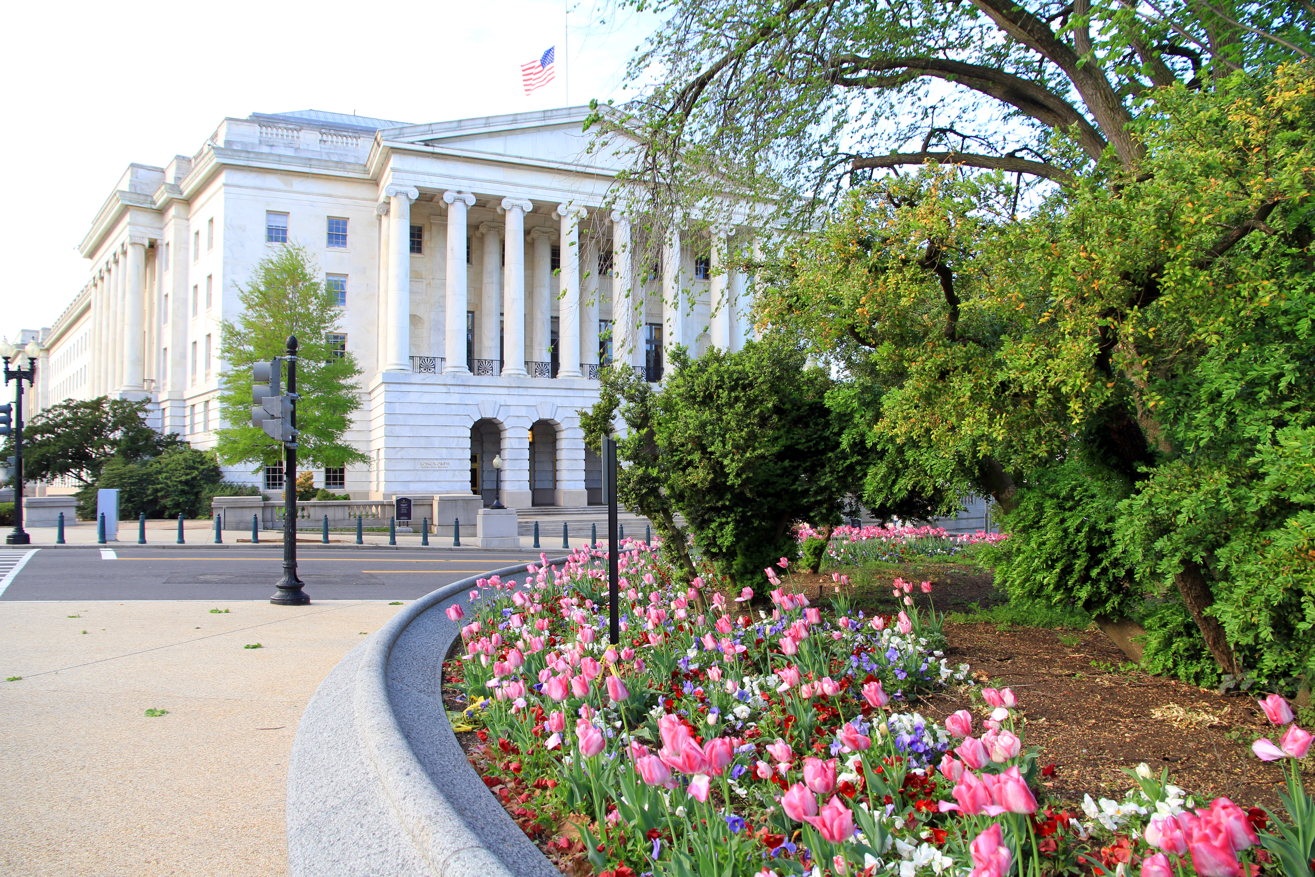 Cannon House Office Building